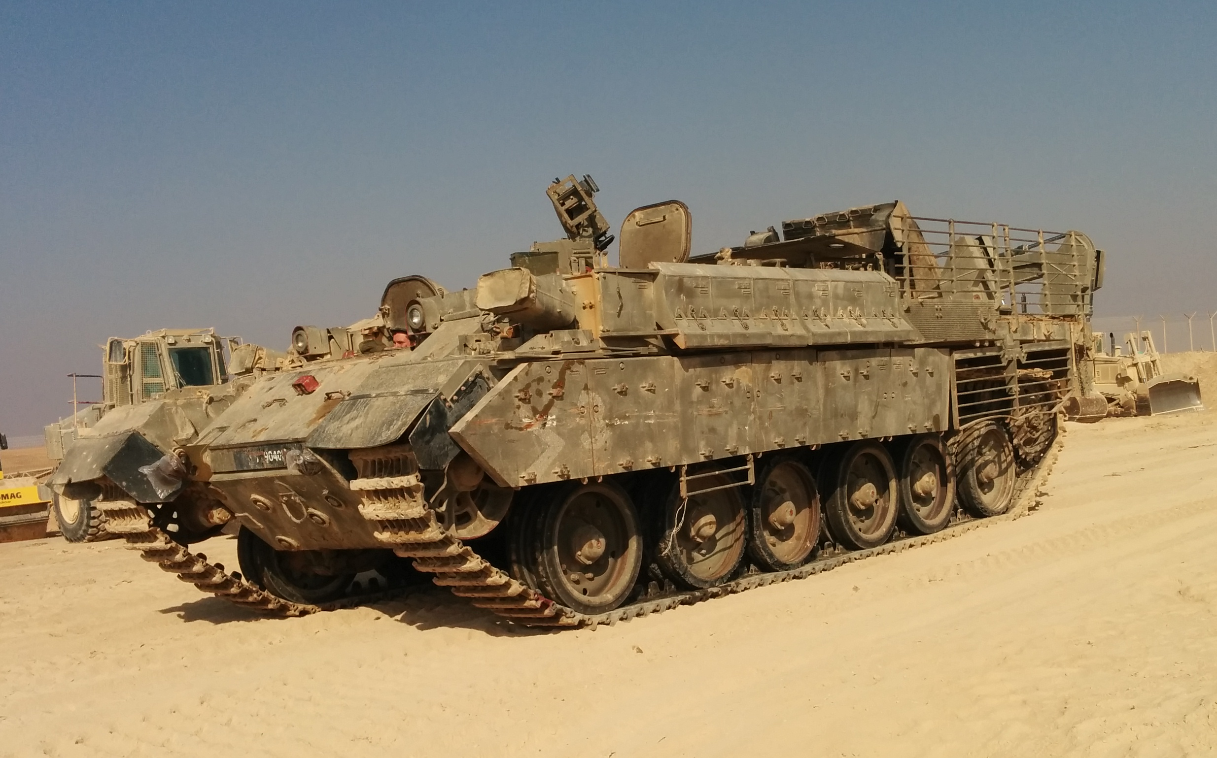 IDF Puma CEV